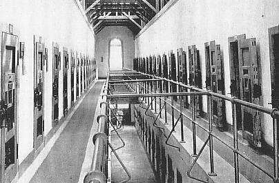 Seidaimon Prison